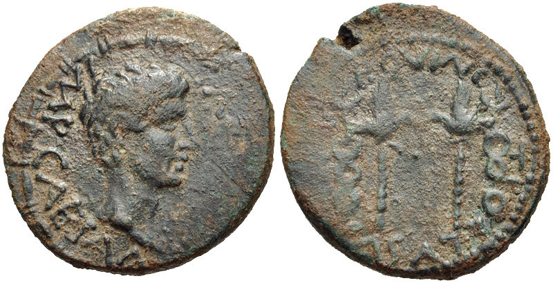 Phoenicia, Berytus. Augustus. 27 BC-AD 14. Æ 22mm (6.87 g, 12h). P. Quinctilius Varus, legate. Struck 6-4 BC. Bare head right Two aquilae. RPC I 4535.19 (this coin); AUB 35-6; Rouvier 493. Good VF, dark green patina, light earthen deposits. From the J.S. Wagner Collection. The general and politician P. Quinctilius Varus had a successful career under Augustus up until AD 9. He had been consul in 13 BC along with the future emperor Tiberius and served as governor of Africa, Syria (where he had sent two legions into Judaea to quell local unrest after the territory was made a Roman province) and Germania. It was in Germania that Varus suffered the defeat he is best remembered for. The Cherusci, under their chieftain Arminius, along with other allies, ambushed Varus in the Teutoburg Forest of northwest Germany, and annihilated the XVII, XVIII, and XIX Roman legions in a battle that lasted for three days. Varus, sensing doom, committed suicide, and when Augustus heard of the disaster, it is recorded that he tore his clothes and exclaimed, “Quintilius Varus, give me back my legions!” No further attempts were made to subdue the Germans beyond the Rhine until the reign of Domitian.